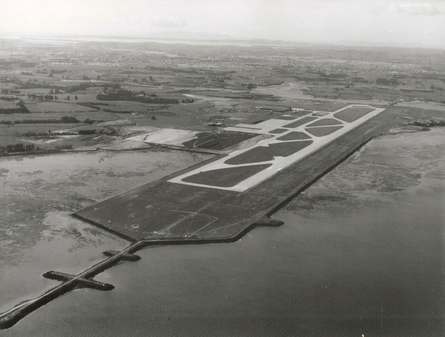 Auckland Airport opened for operations at Māngere in November 1965, with the Governor-General officially opening the airport on 29 January 1966. A number of sites were suggested for a new airport in Auckland including at Karaka Point, Pakuranga-East Tamaki and three slightly different sites at Māngere. In 1959 it was decided that the site would be based at Māngere and take in the existing aerodrome (used by the Auckland Aero Club). Contract specifications were drawn up in 1960 and the tender awarded to Taylor Woodrow Wilkins & Davies in 1962, with an agreed contract price of £2,768,347. This 1965 image is an aerial photograph taken of the airport from Manukau Harbour. Title: Air Transport Publicity Caption: Mangere International Airport. Aerial Photographer: G. Riethmaier August 1965, Mangere, Auckland. Archives New Zealand Reference: AAQT 6539 W3537 60 / A77752 For further enquiries Material from Archives New Zealand Te Rua Mahara o te Kāwanatanga